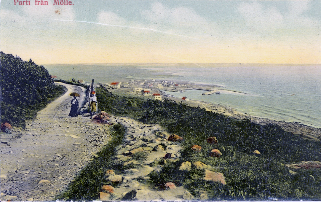 The "Italian road" Kullaberg, Mölle, Sweden